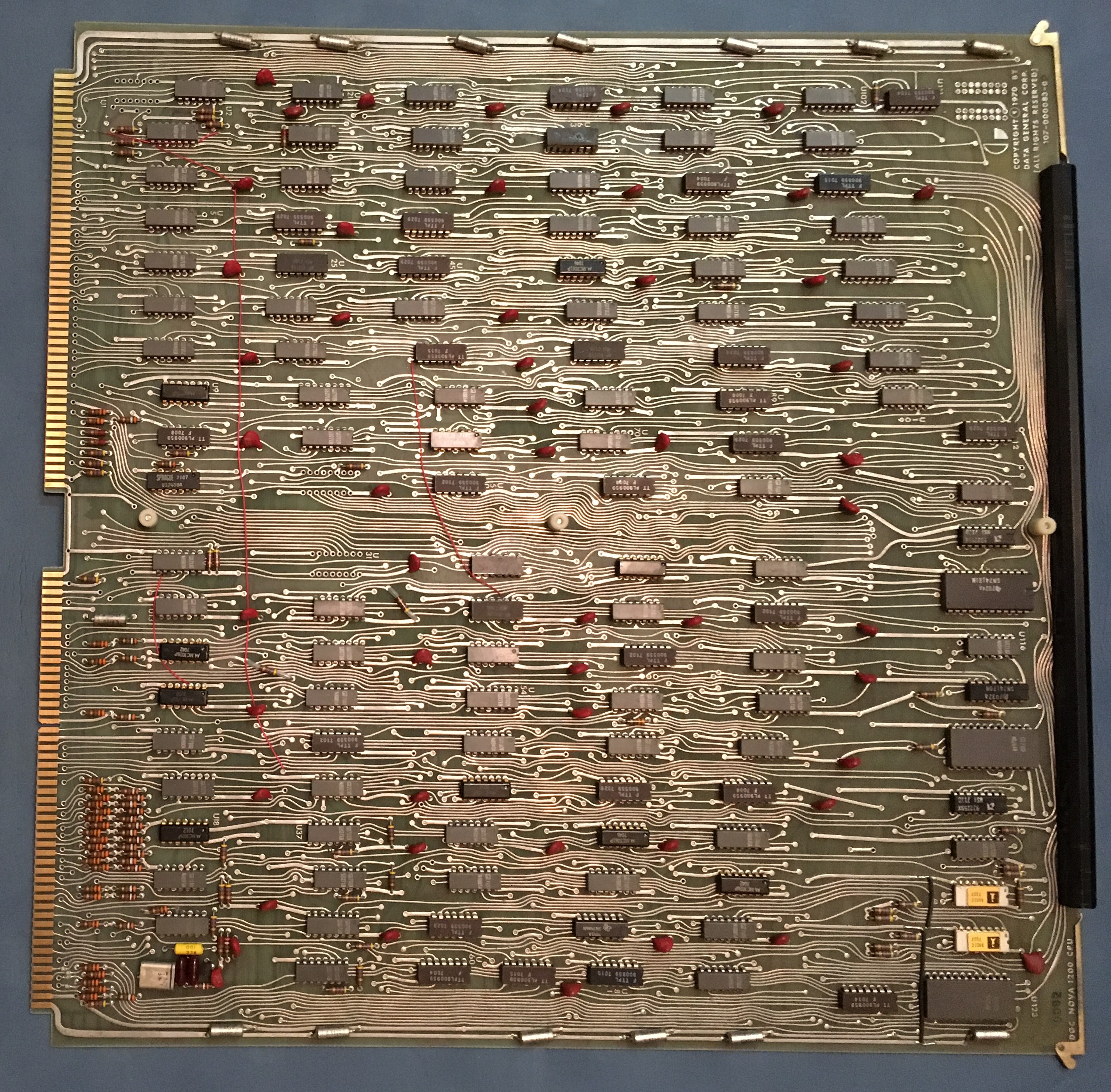 Data General Nova 1200 CPU board, circa 1970, with 120 integrated circuits.